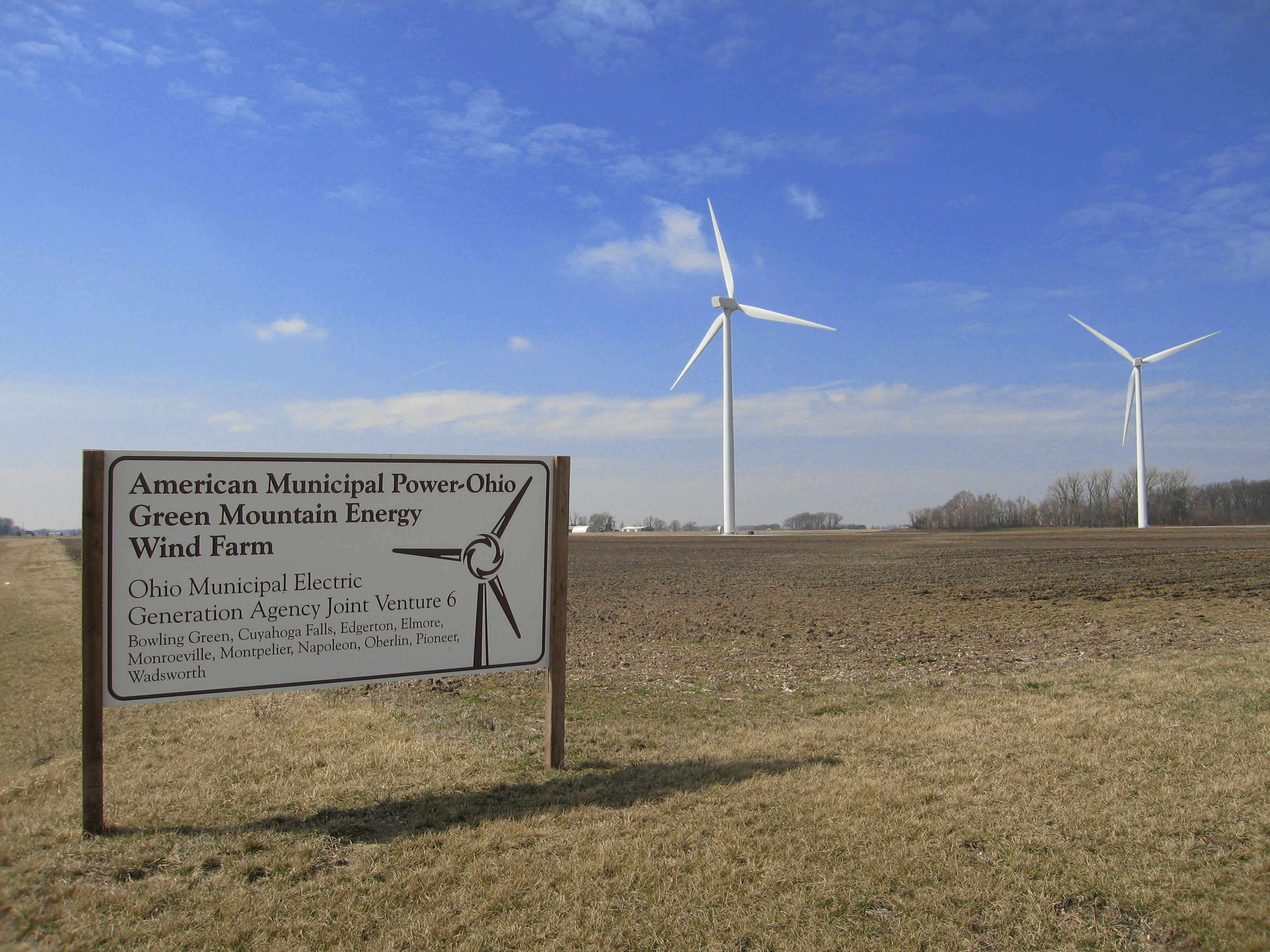 Photograph of the main entrance sign to the Bowling Green Wind Farm, and its two southern most wind turbineen towers. The turbines are 1.8 megawatt units mounted on 256 ft (78 m) tall towers, with each of the 134 ft (40.8 m) long blades weighing 22,000 lbs (9980 kg). The two turbines produced 7245 megawatt hours their first year of operation. Dedicated in November 2003, the project is the first utility-sized wind power farm in Ohioen.